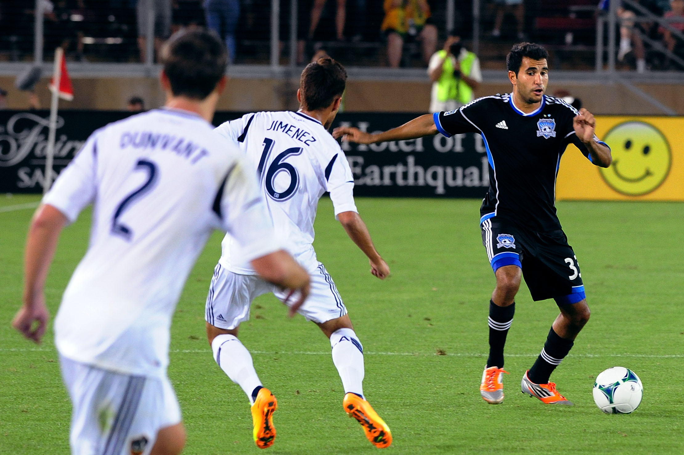 Steven Beitashour of the San Jose Earthquakes dribbles the ball in the second half of their MLS game against the Los Angeles Galaxy at Stanford University Stadium on June 29, 2013. The Earthquakes hosted their annual military appreciation night to celebrate service members and their families.